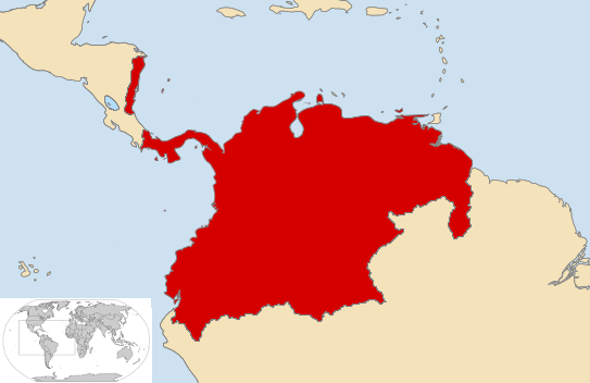 Map of the Viceroyalty of New Granada